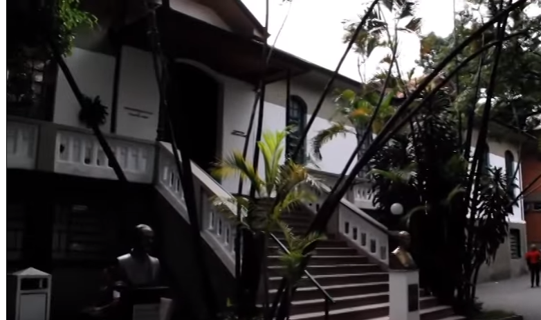 Photo taken from the front of the building